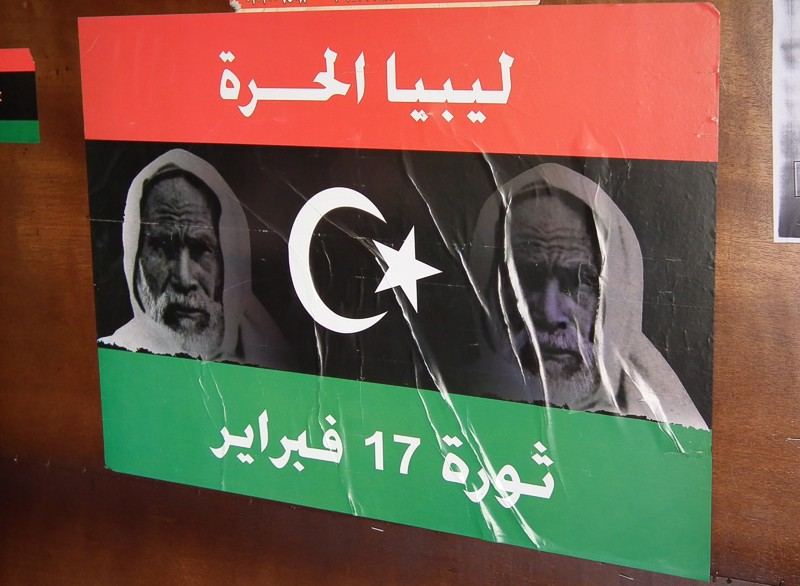 Poster of the Free Libya Movement, blending the portait of Omar Mukhtar into the re-newed flag that formerly belonged to the Kingdom of Libya. Arabic text says "The free Libya" and "February 17 revolution".